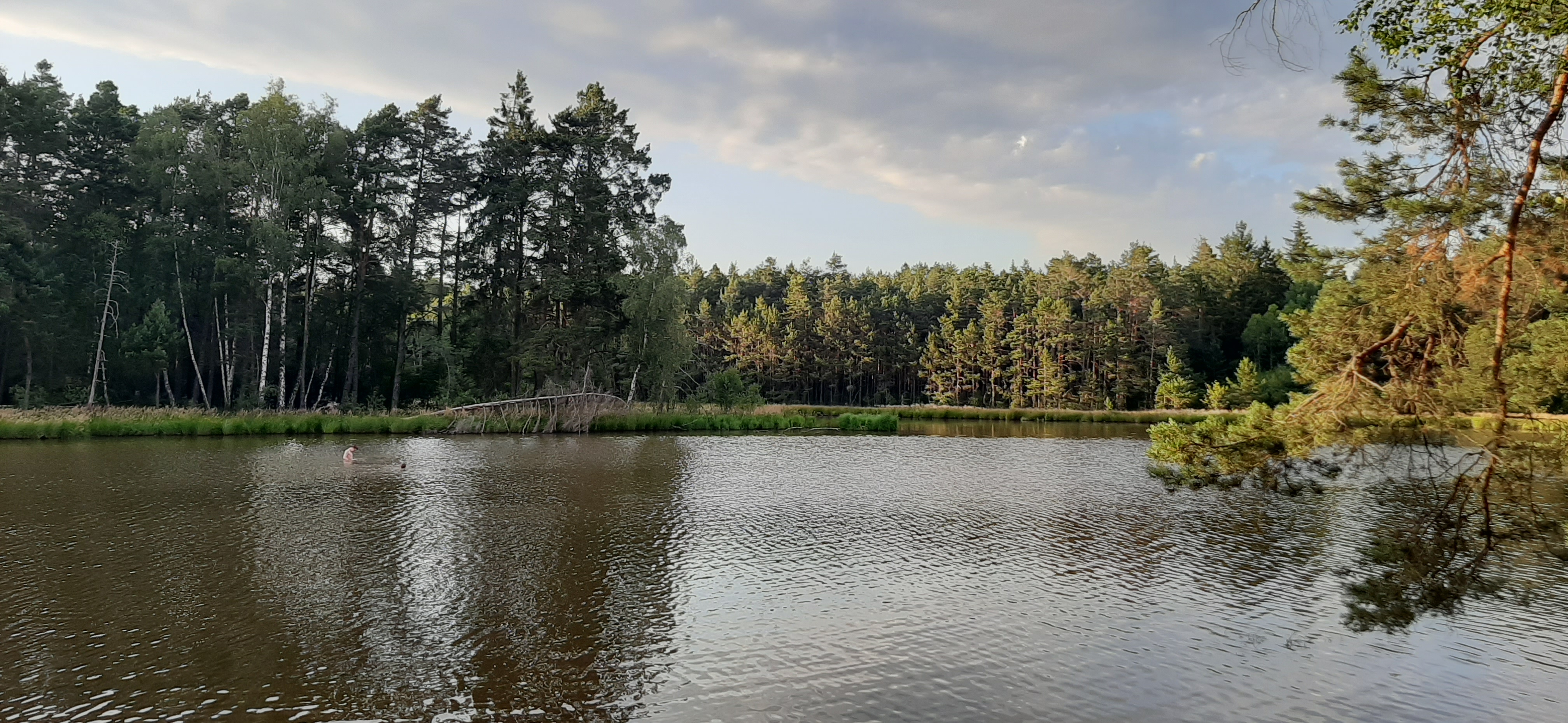 View of a part of Brunnweiher, near Brunn, municipality of Ehingen, district of Ansbach, Bavaria, Germany